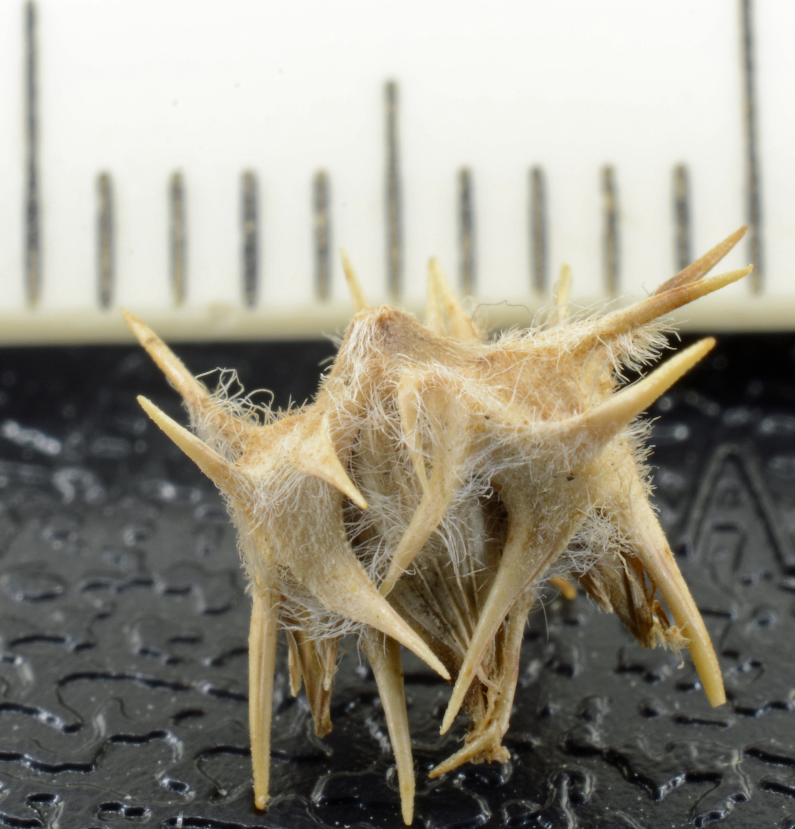 Sandspur in front of a centimeter scale